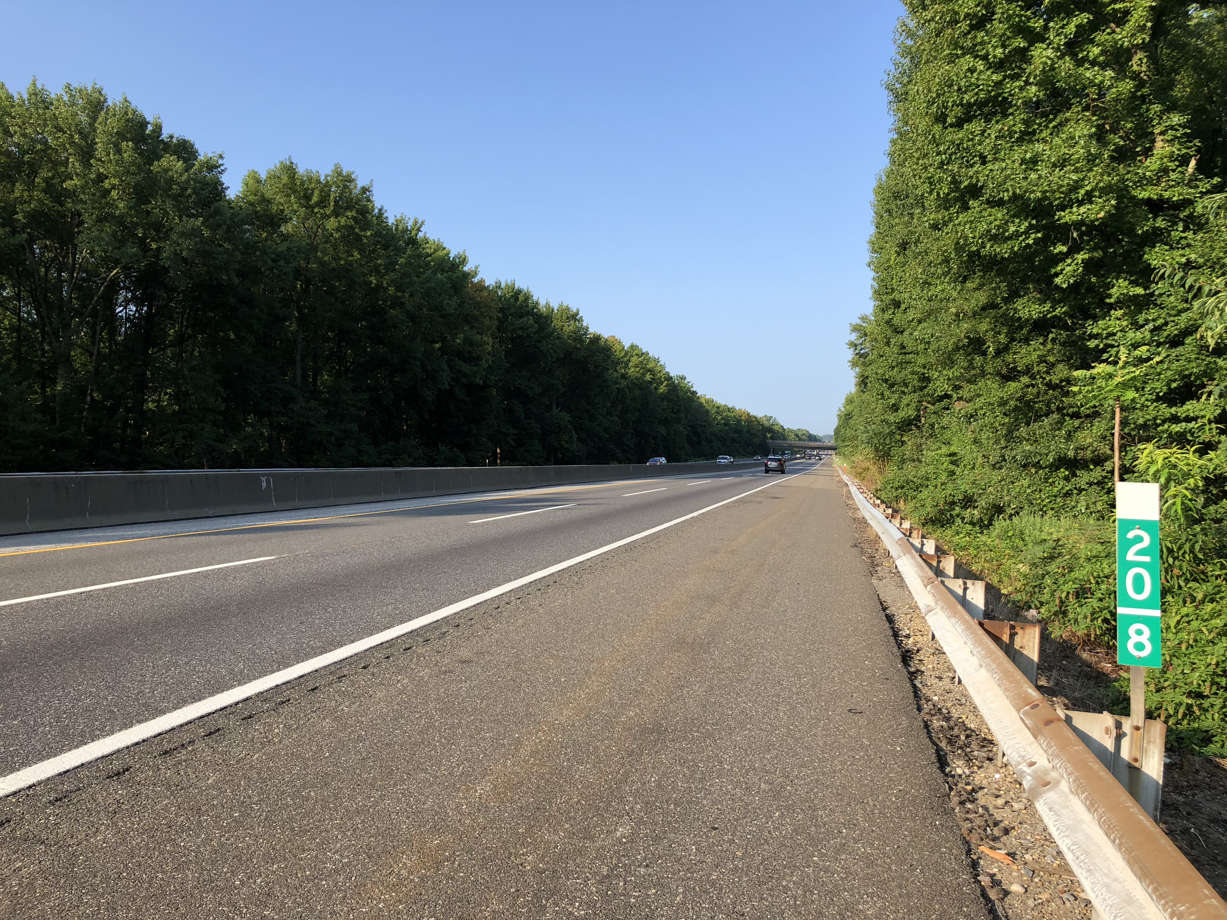 View south along New Jersey State Route 700 (New Jersey Turnpike) between Exit 3 and Exit 2 in Woodbury Heights, Gloucester County, New Jersey